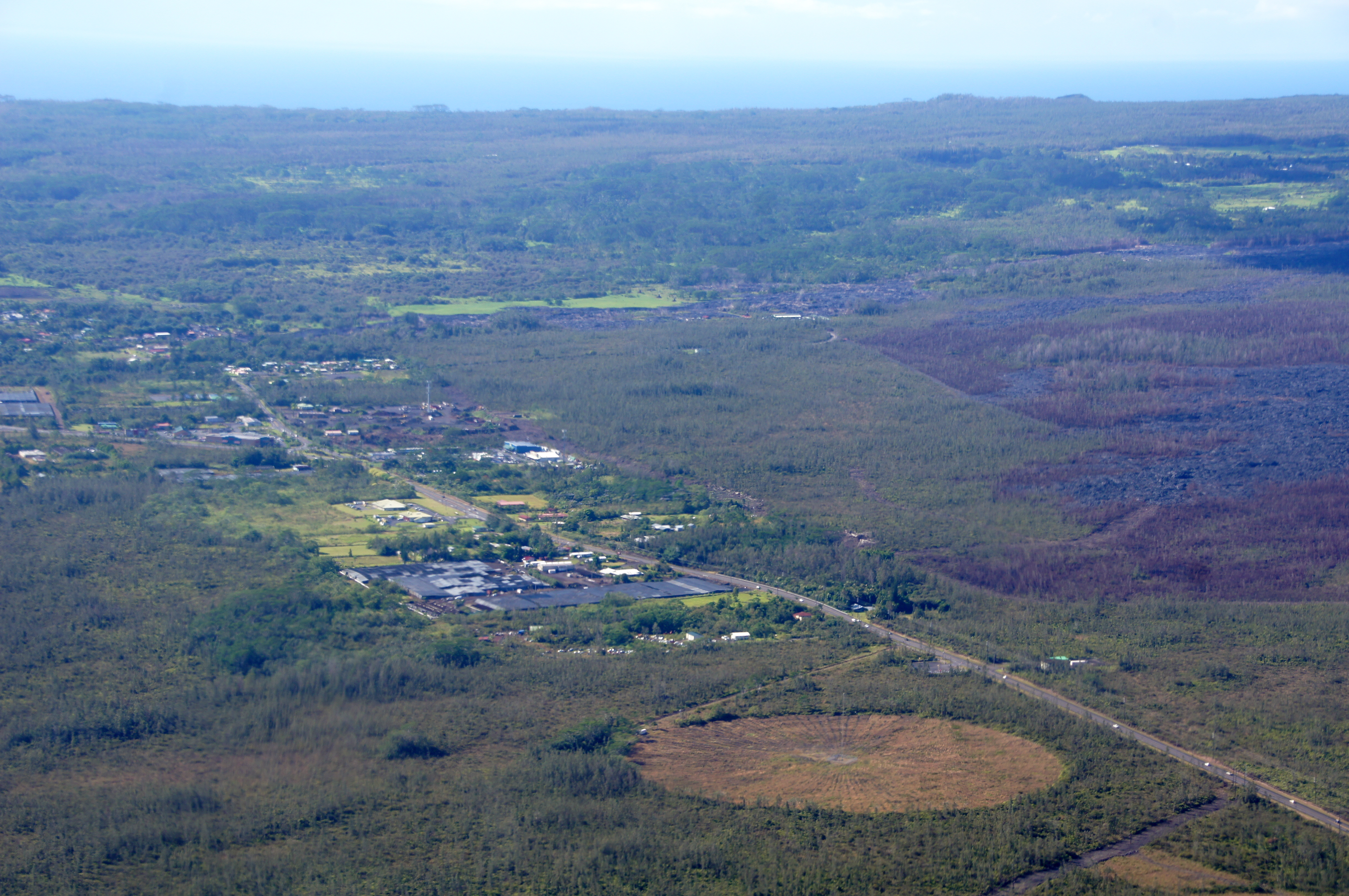 Looking south toward the town of Pahoa, and southwest toward the lava flow from Pu'u 'O'o-- outlined by burnt vegetation.